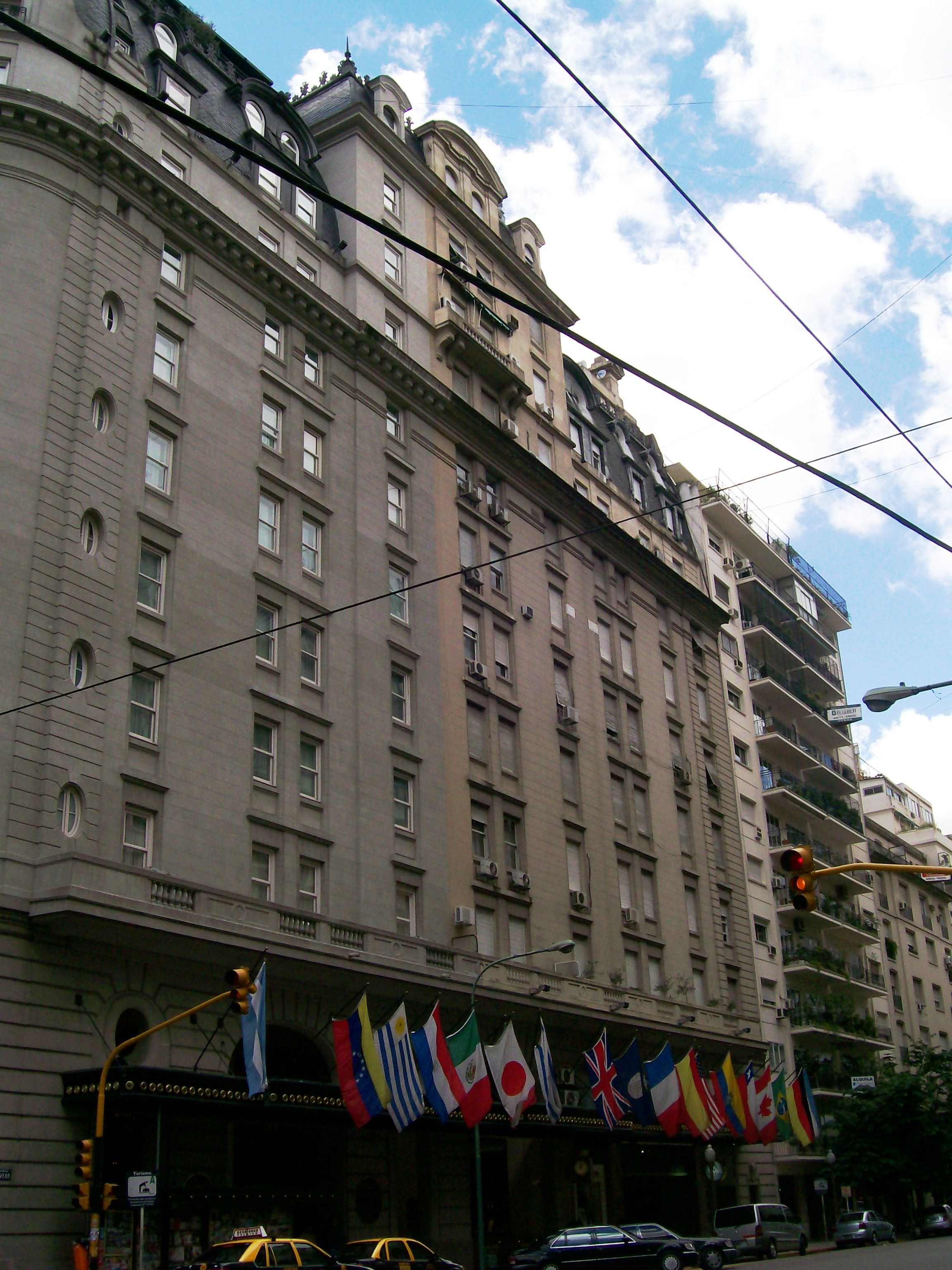 Hotel Alvear, Recoleta, Buenos Aires